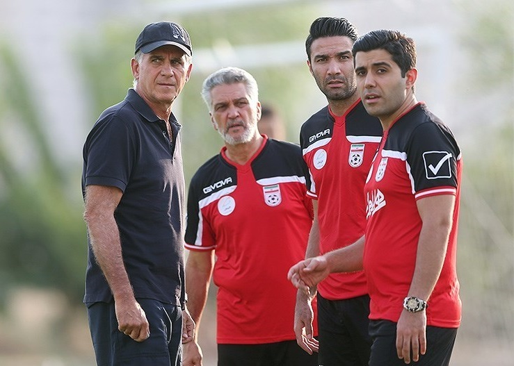 Iran national football team training